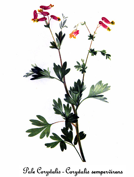 Watercolor painting of Corydalis_sempervirens.